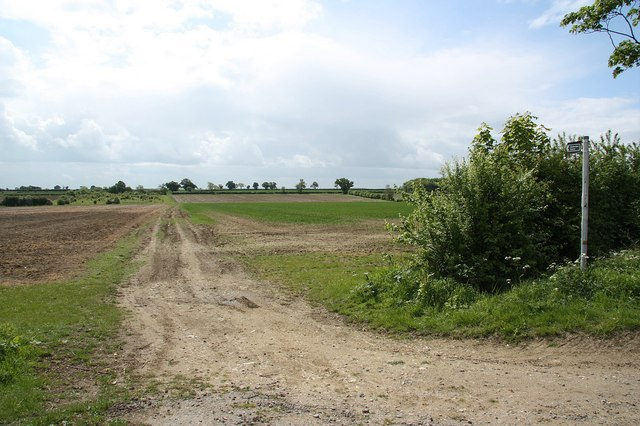 Green Lane A green lane called Green Lane heading south near Haceby